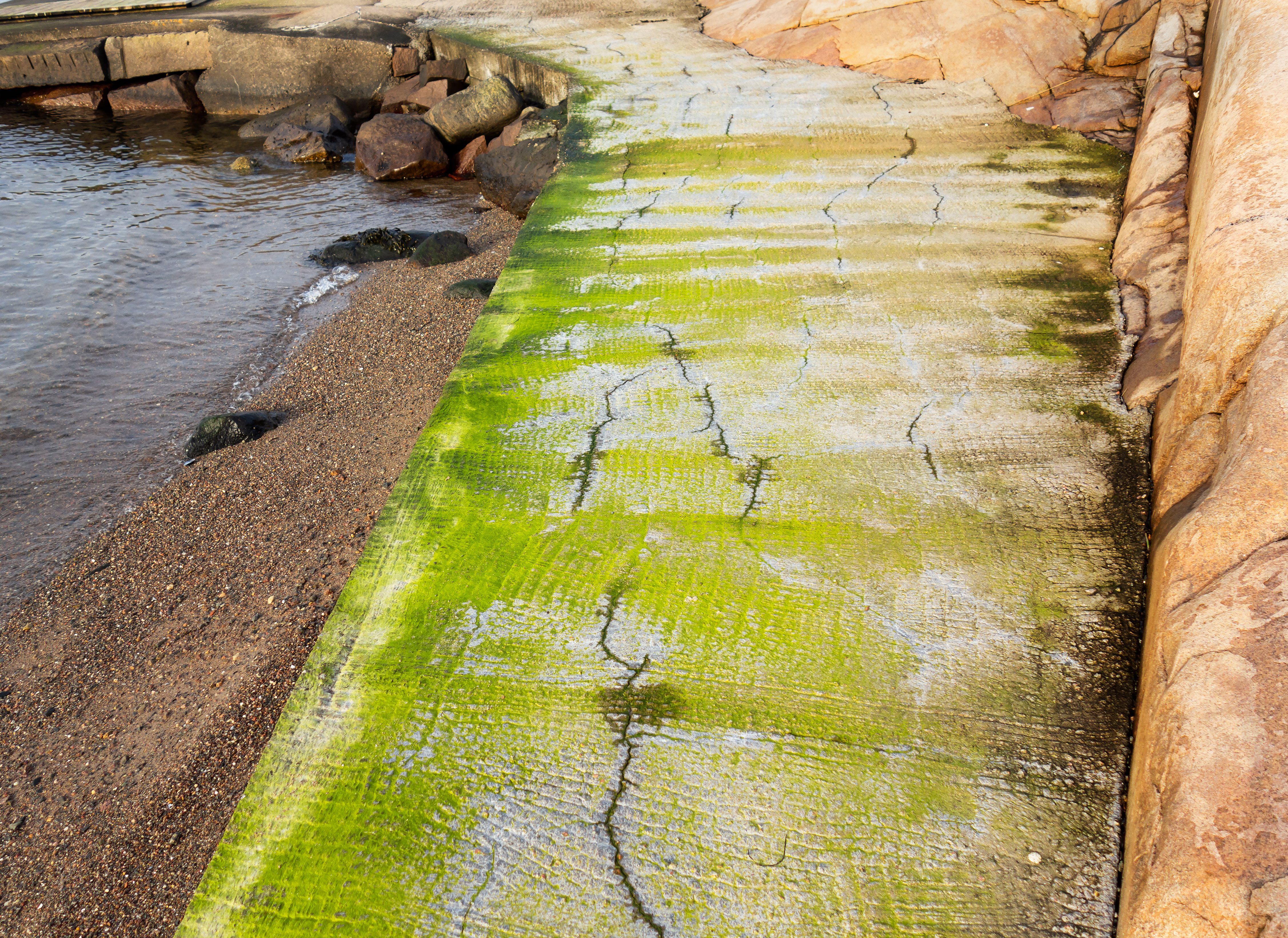 Dried algae (Cladophora glomerata) on a concrete walkway in Govik, Lysekil Municipality, Sweden.